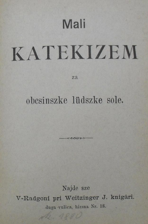 József Borovnyák: Mali katekizem za obcsinszke lüdszke sole (Small cathecism for the circumferential elementary schools) prekmurian catholic cathecism in 1890 with the Szvéti Angel csuvár